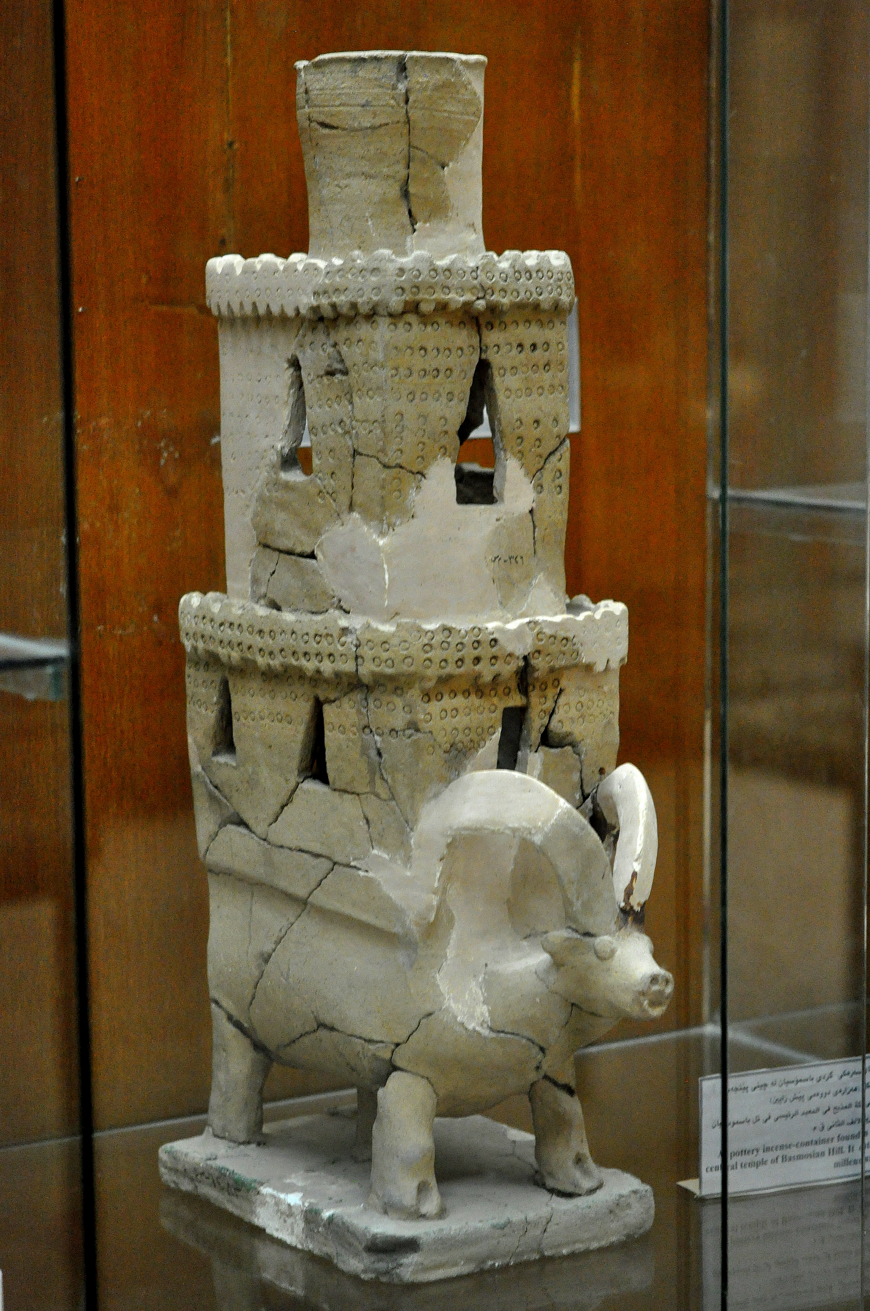 A pottery incense container which was found at layer 5 of the altar platform of the central temple of Tell-Basmosian. Hurrian period, 2nd millennium BCE. The Sulaymaniyah Museum, Iraq.